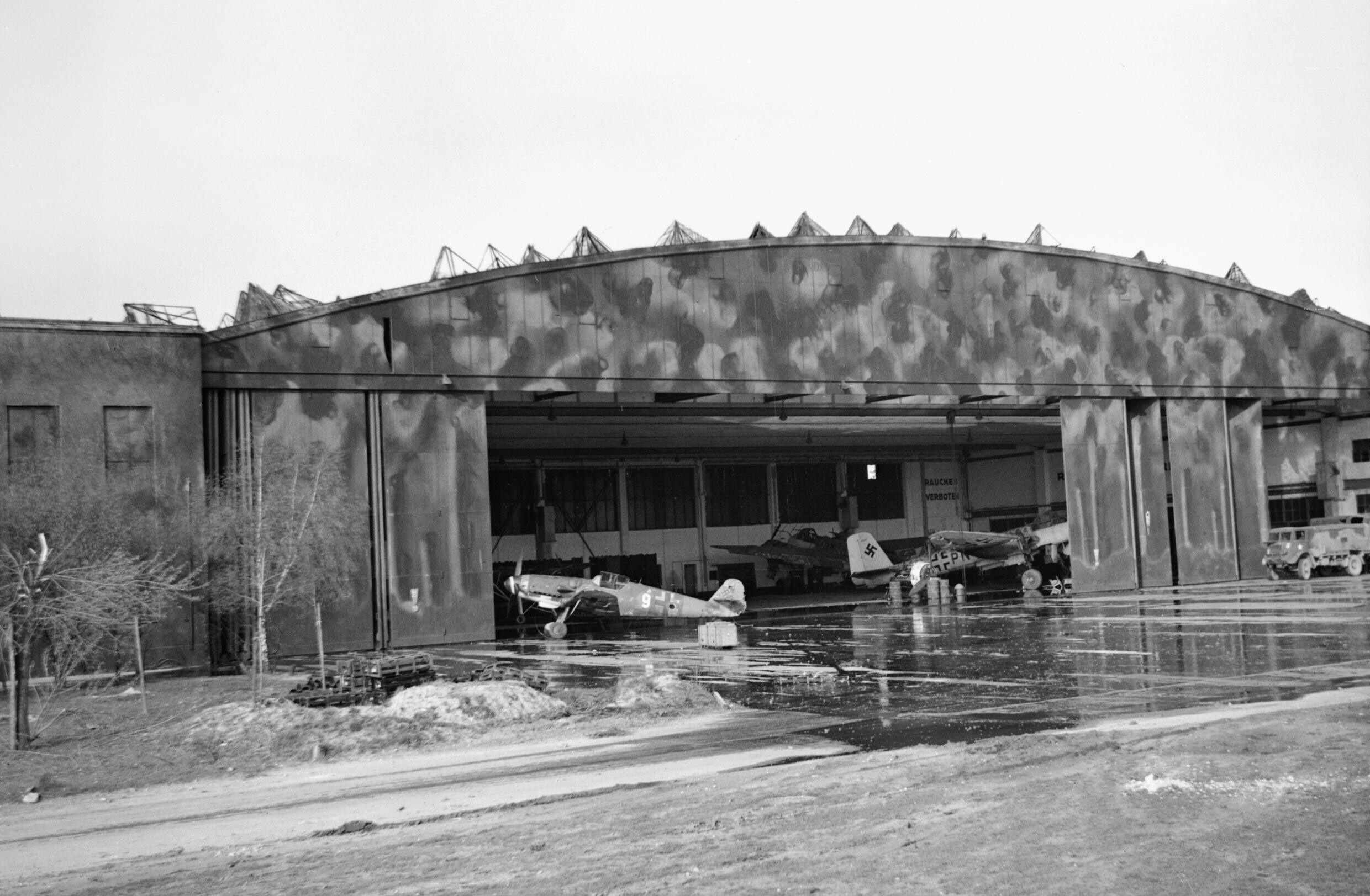 Me 109 and Ju 88G aircraft in a hangar at Wunstorf airfield, Germany, captured by the 5th Parachute Brigade, 6th Airborne Division, 8 April 1945.